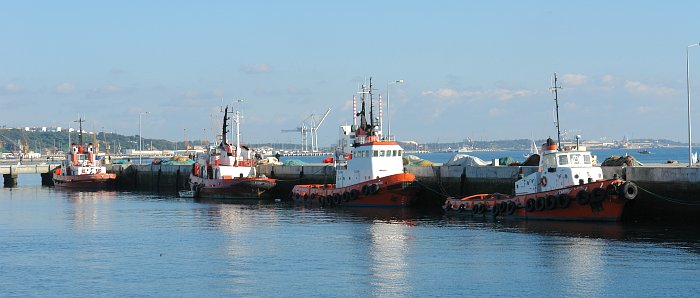 Fishing harbour in Setúbal, Portugal. Photographer: Osvaldo Gago